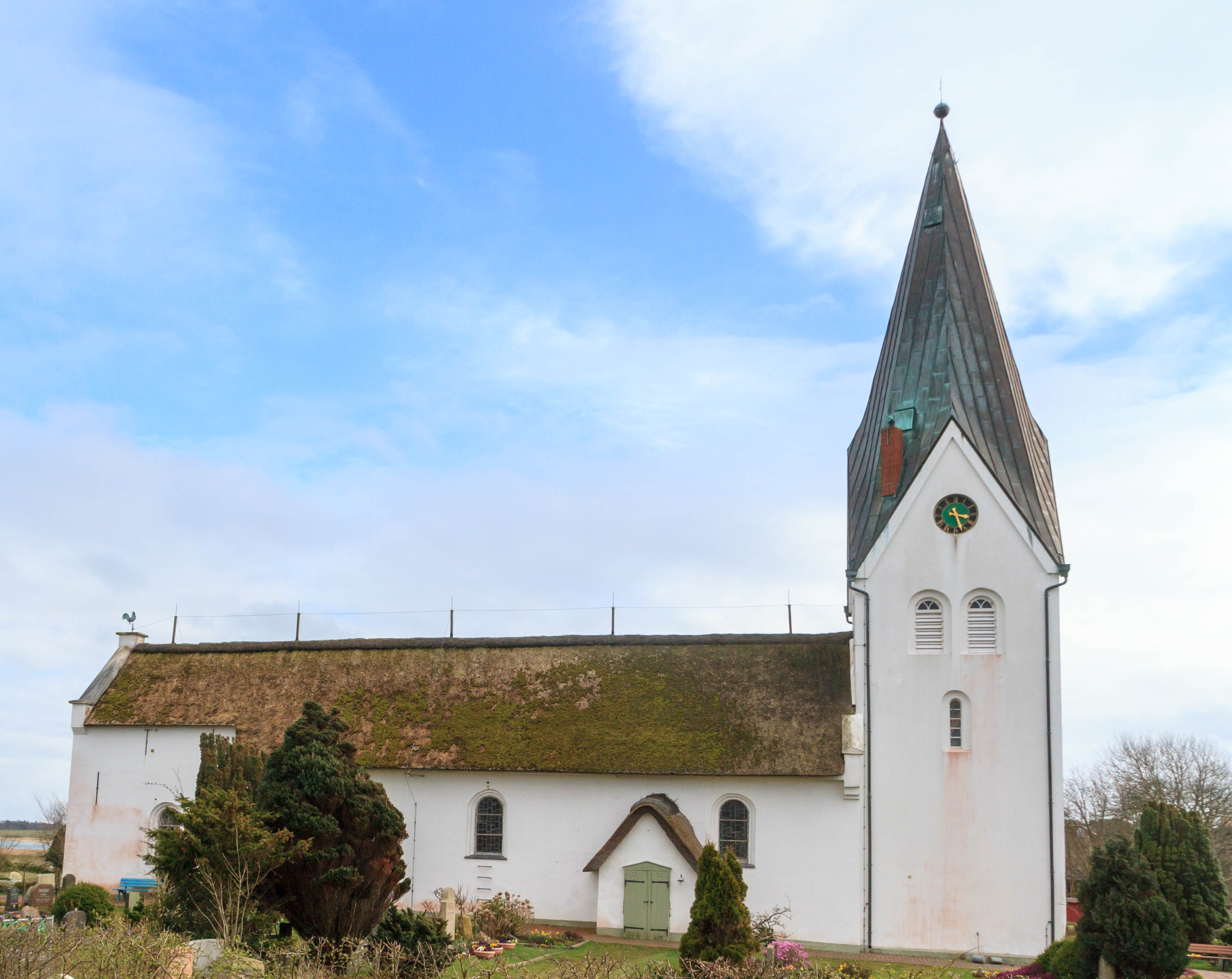 The making of this document was supported by the Community-Budget of Wikimedia Germany. Die Kirche St. Clemens (Nebel)